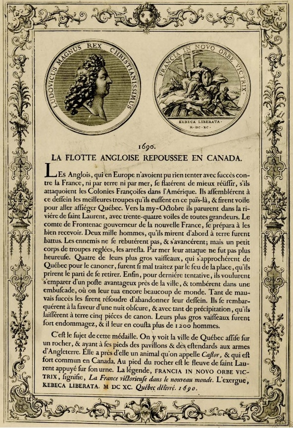 English flotilla repelled in Canada / Flotte angloise repoussée en Canada Creator(s) / Créateur(s) : Unknown / Inconnu Date(s) : 1691 Reference No. / Numéro de référence : MIKAN 3030166 Location / Lieu : France Credit / Mention de source : Peter Winkworth Collection of Canadiana. Library and Archives Canada, e002511596 / Collection d'oeuvres canadiennes Peter Winkworth. Bibliothèque et Archives Canada, e002511596